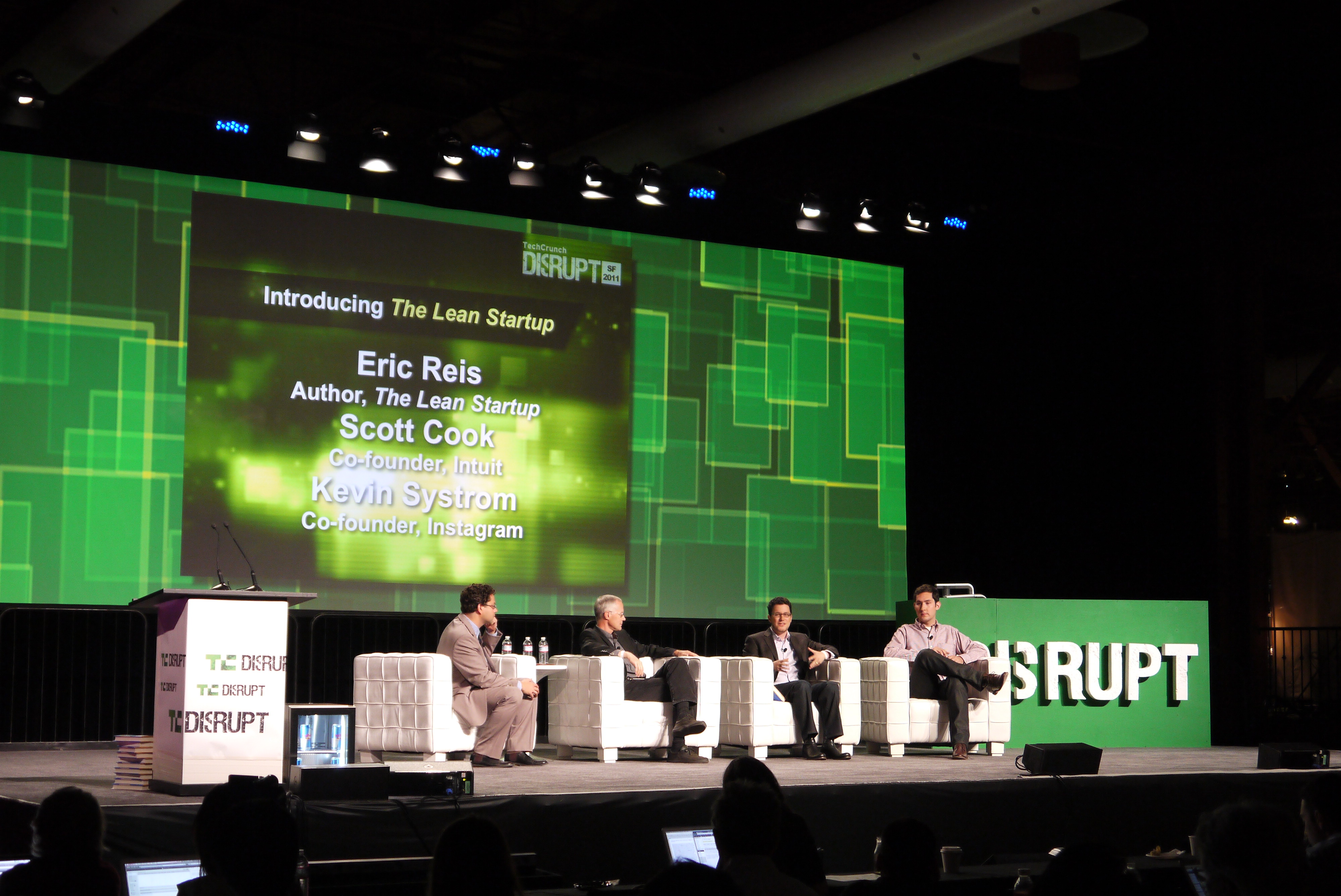 This is an image of Eric Ries, Scott Cook, and Kevin Systrom at the TechCrunch Disrupt conference